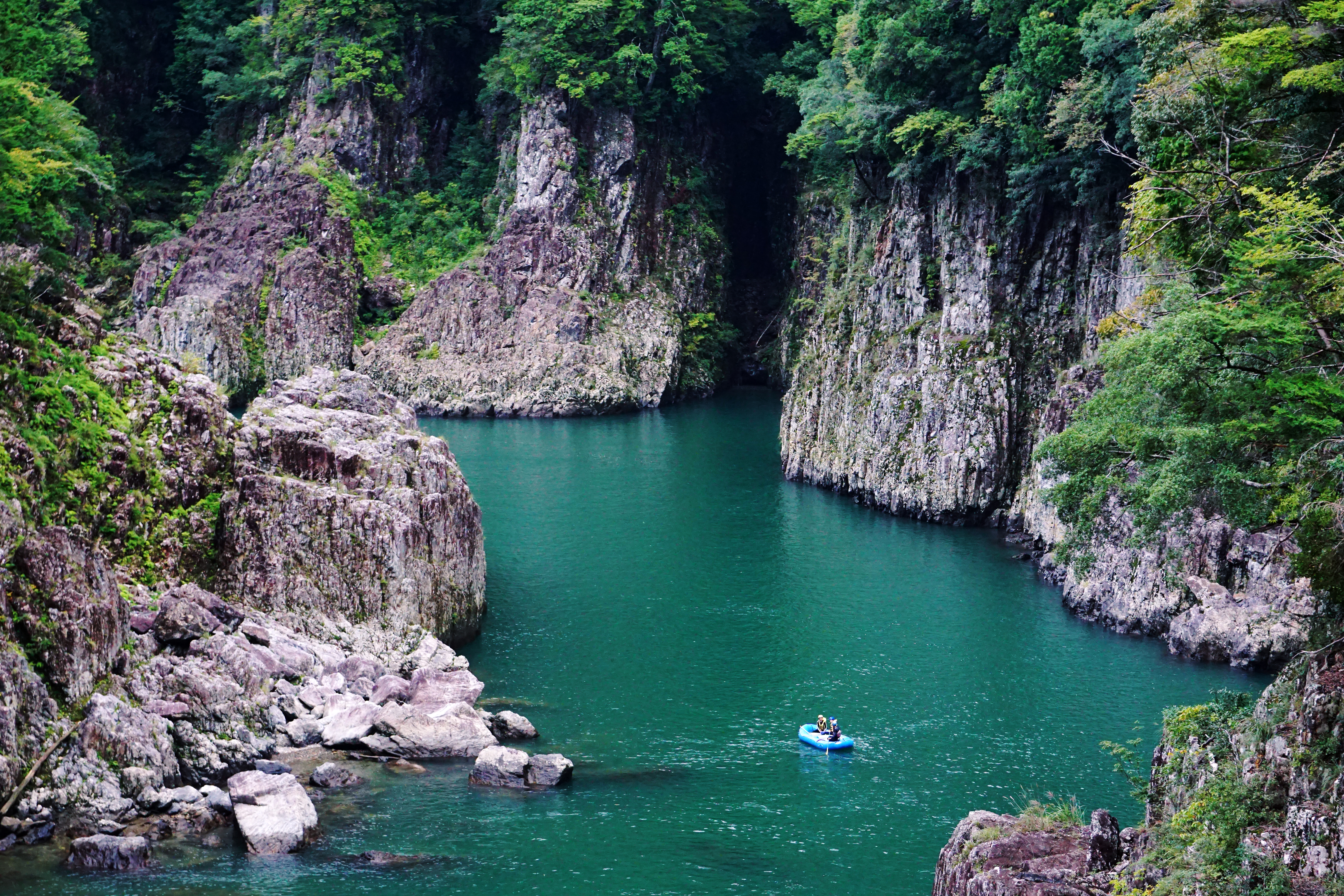 Doro-hatcho of Dorokyō in Shingū, Wakayama prefecture, Japan